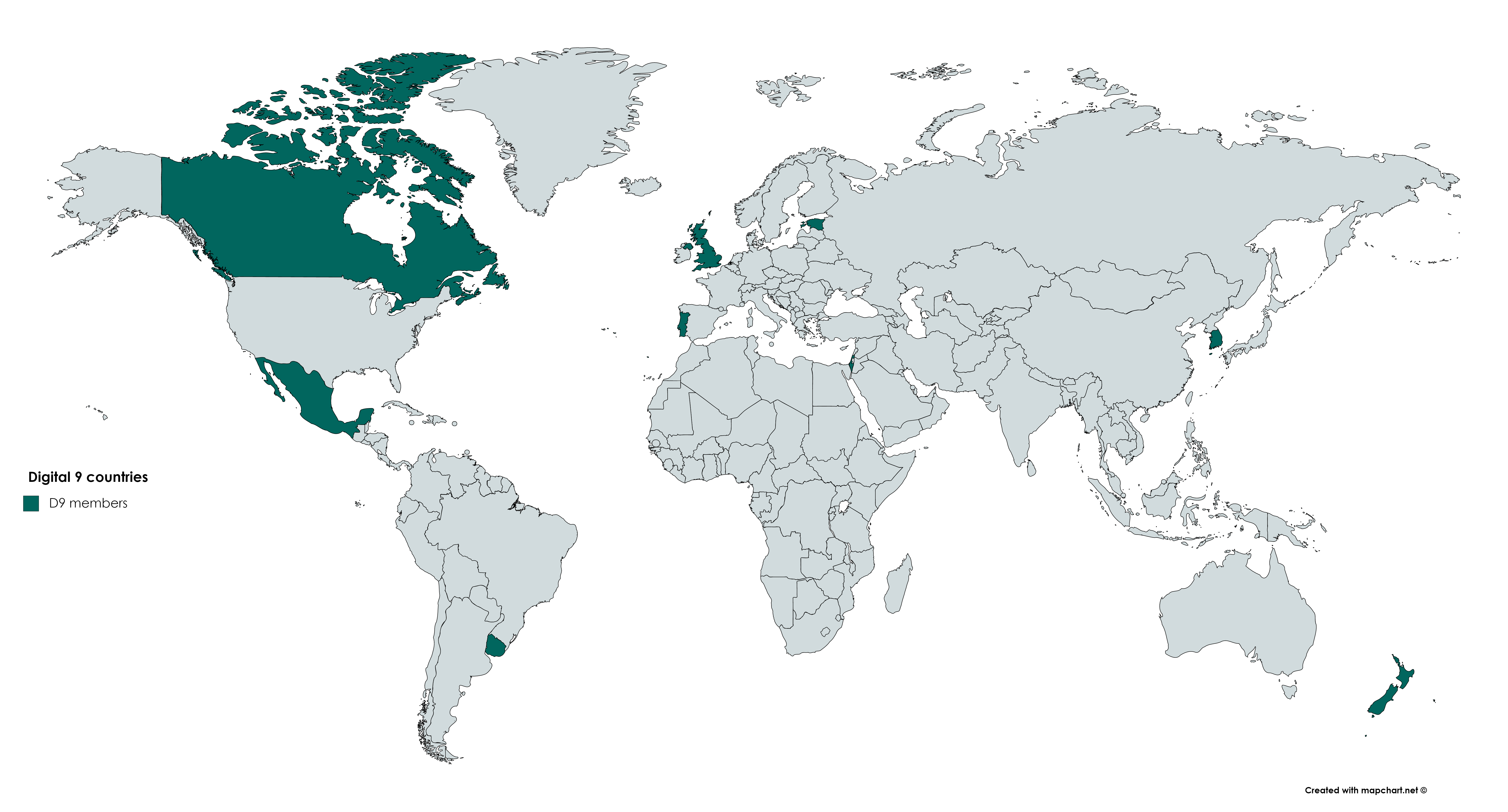 Map of the Digital 9 member countries Аҧсшәа: Países miembros del D9